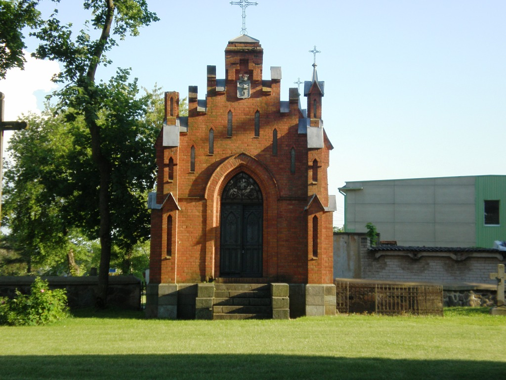 Chapel in Žeimiai, Lithuania